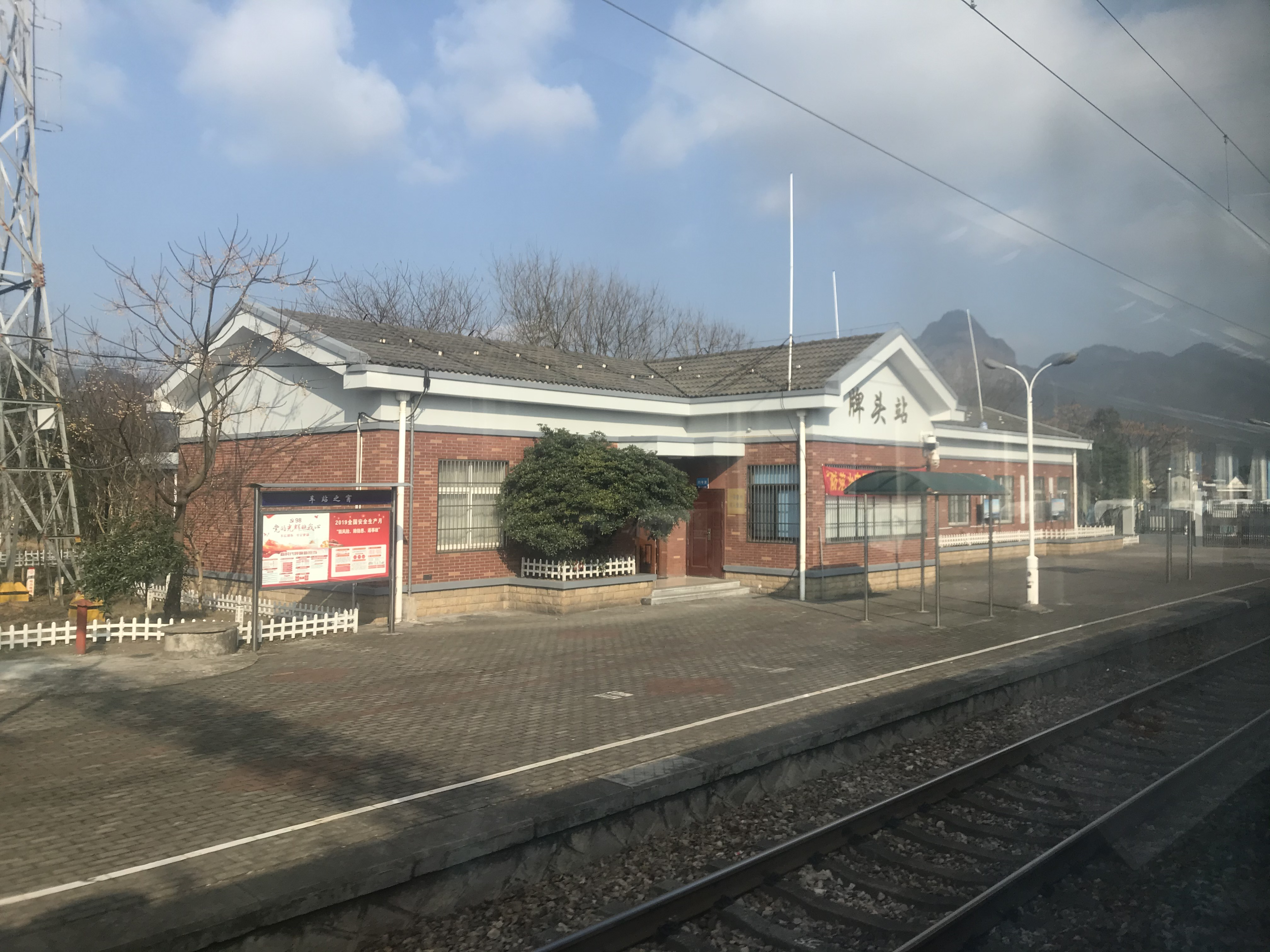 202001 Station Building of Paitou